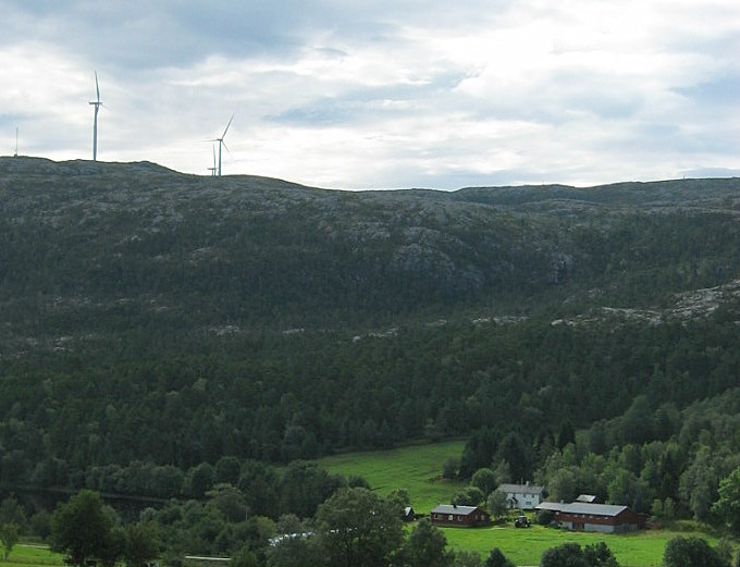 Straum, Hitra, Sør-Trøndelag, Norway. Landscape with wind turbines.